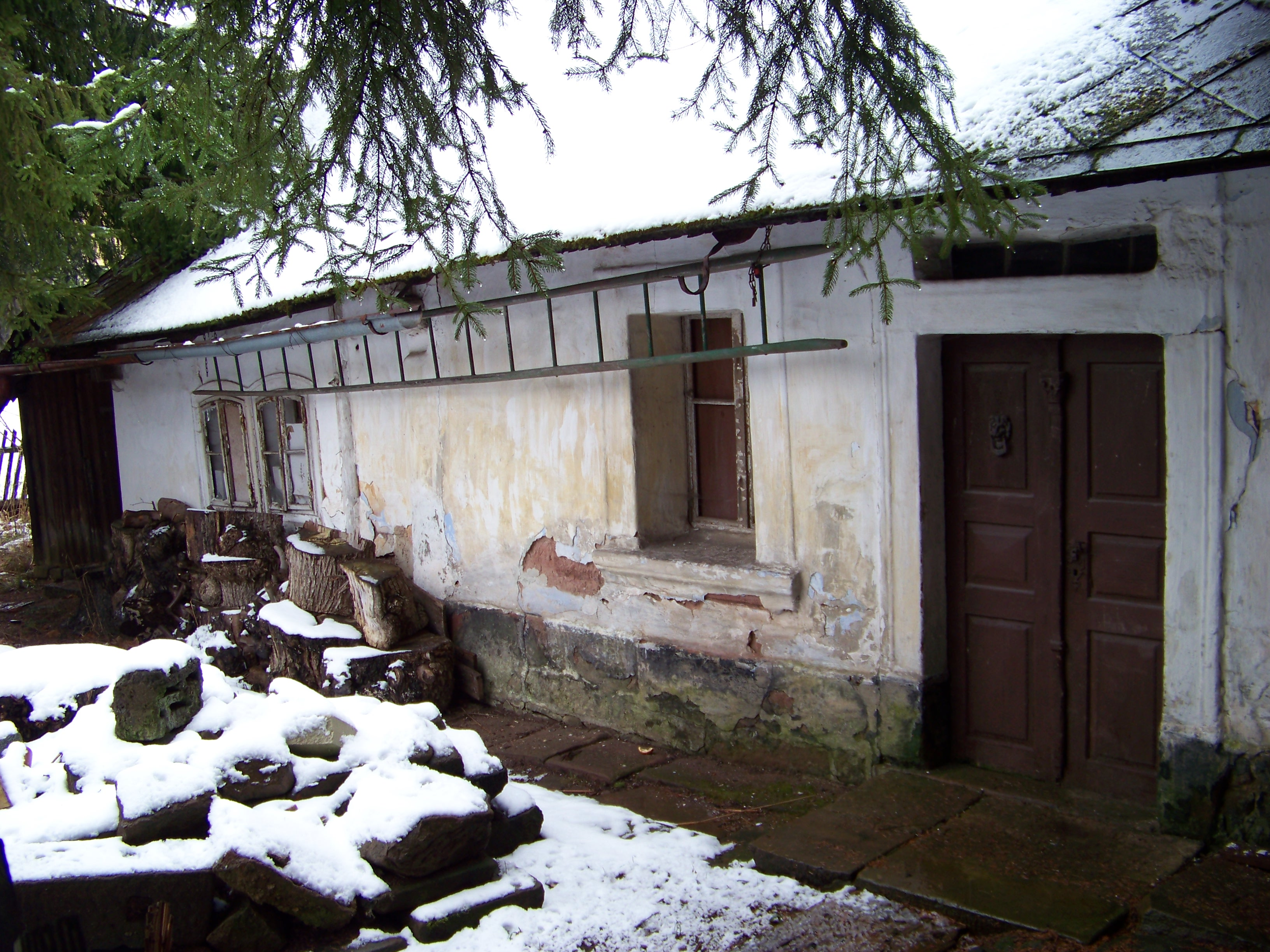 Lomnice nad Popelkou, Semily District, Liberec Region, Czech Republic. Hálkova 311.